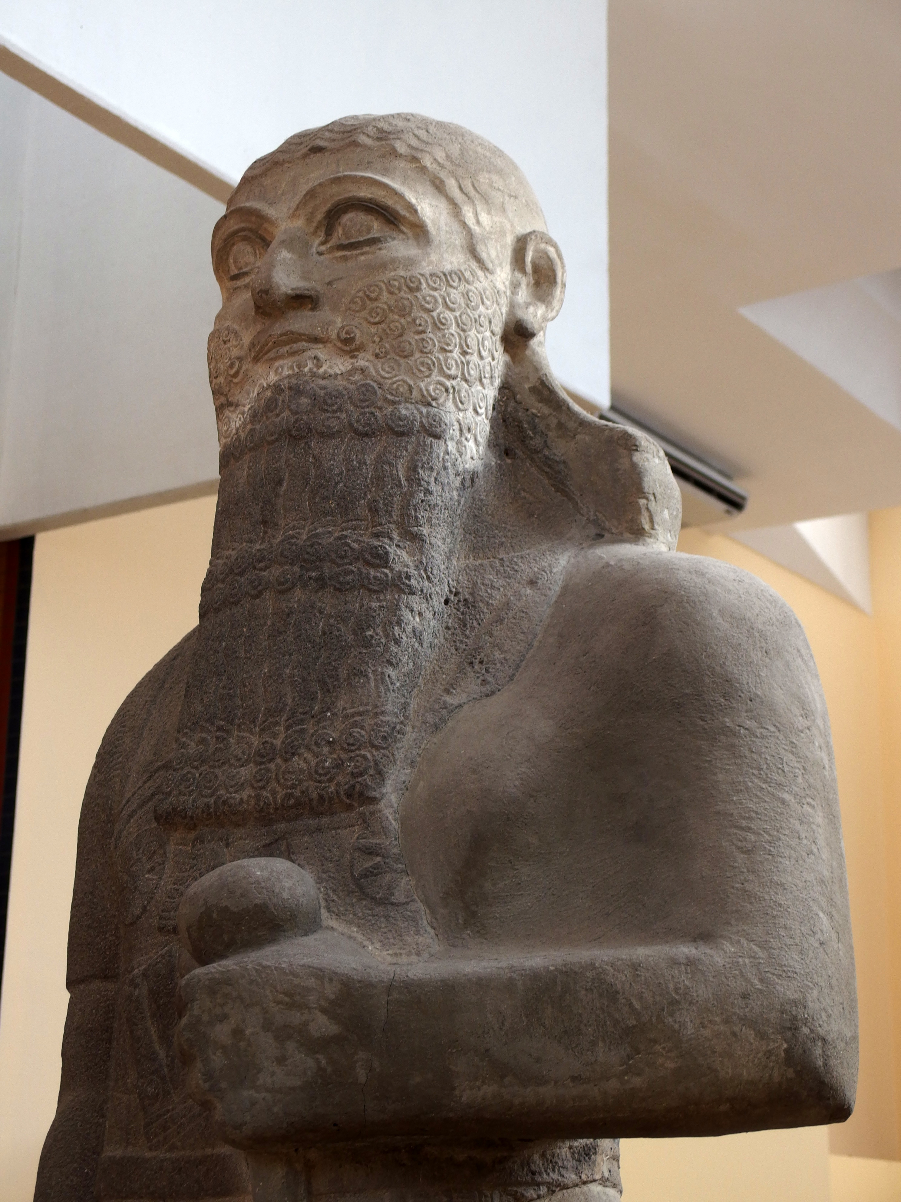 2013-12-05 in Istanbul.